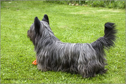 Skye terrier, 2,5 year old, Stailij William Willi